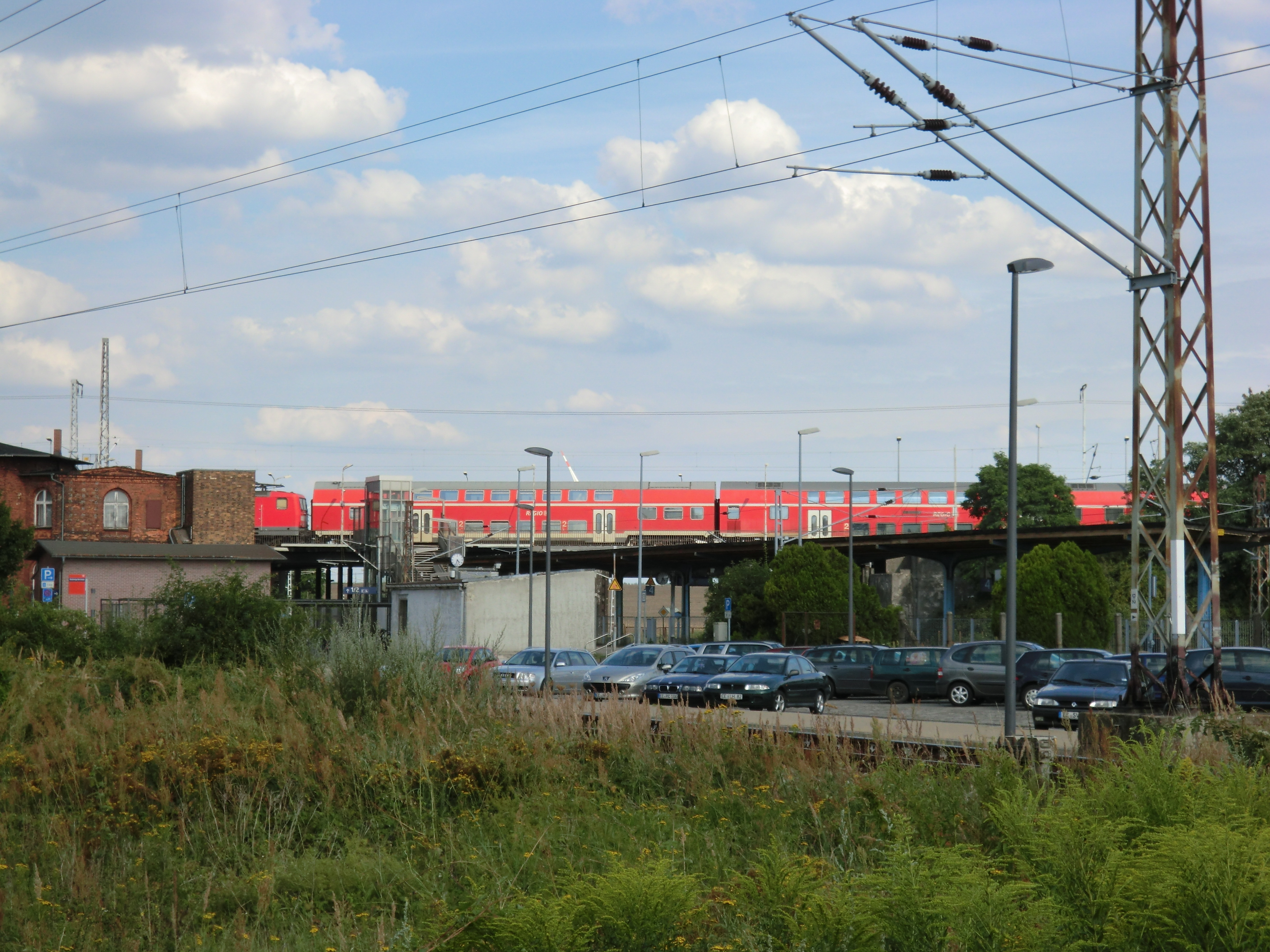 Train "Regionalexpress" Stralsund-Elsterwerda in station Doberlug-Kirchhain towards Dresden